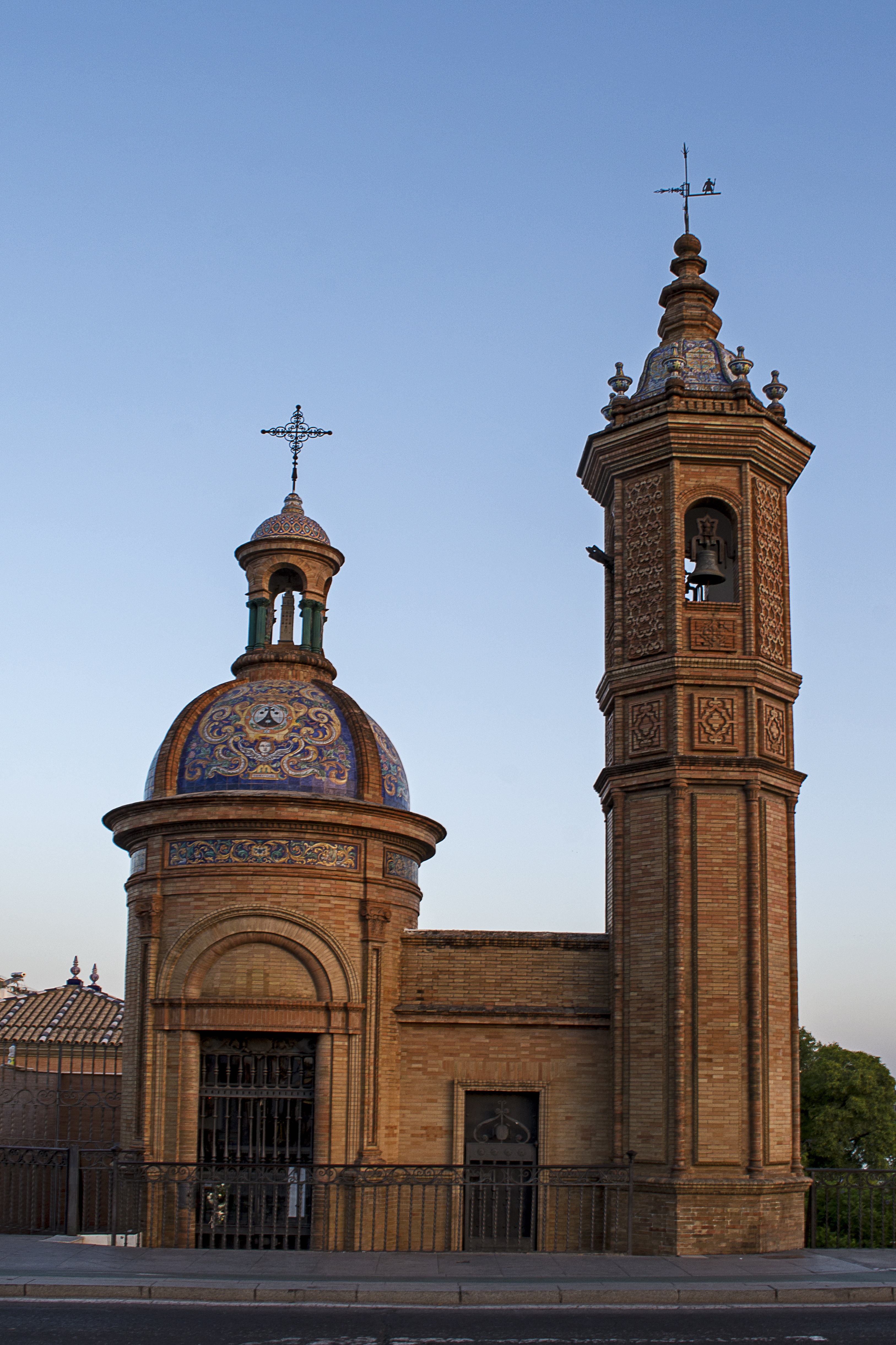 Chapel of Carmen, Seville